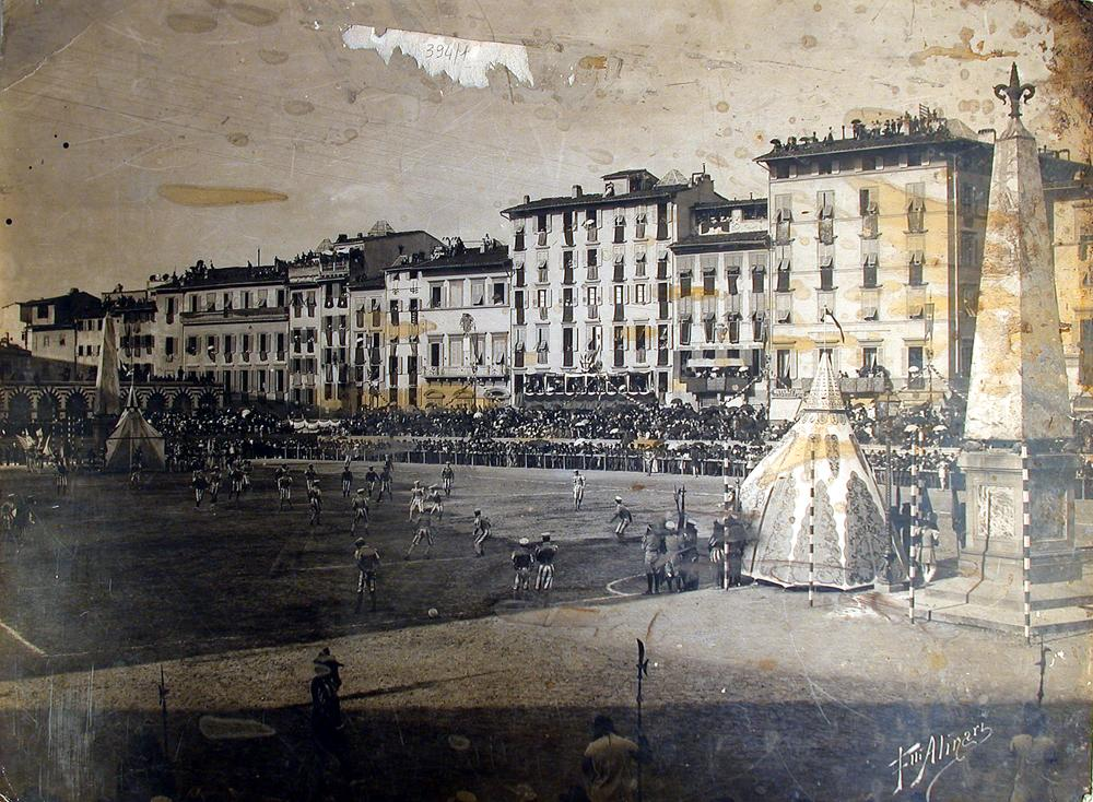 A match of "Calcio in costume" in Florence, Piazza S. Maria Novella, 1902